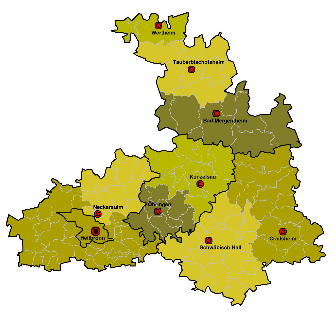 Maps of planning regions (Mittelbereiche) in the region Heilbronn-Franken, Baden-Württemberg, Germany